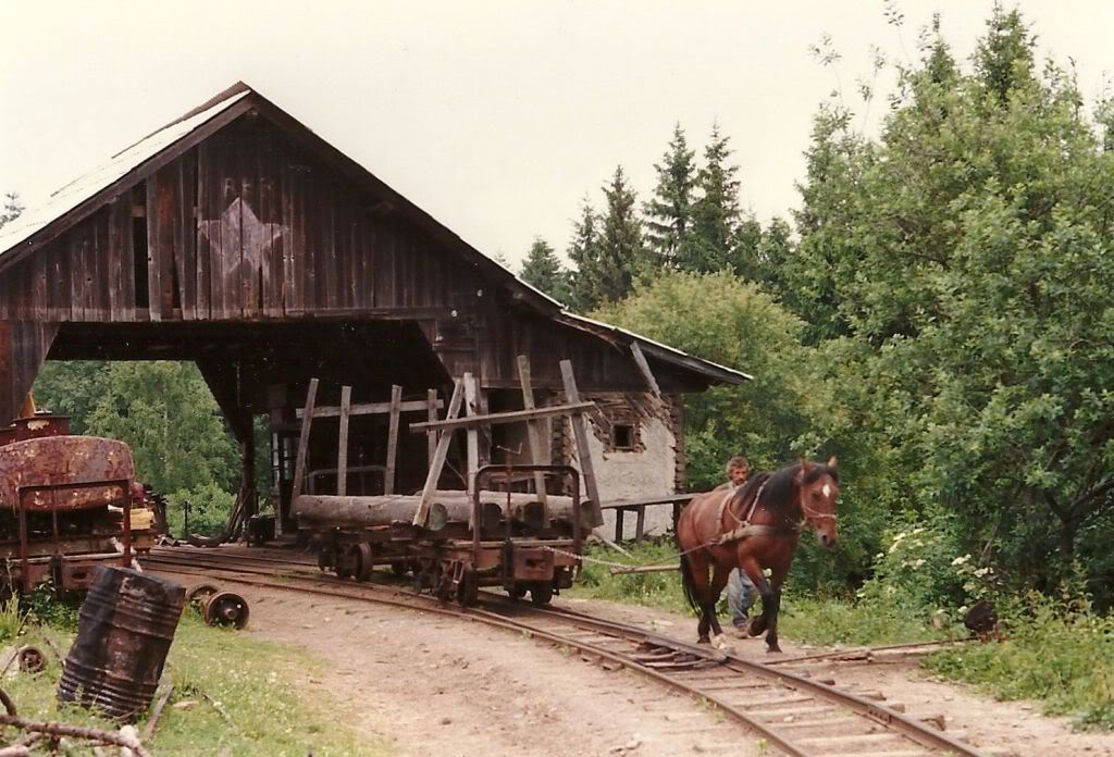 Covasna Comandău (1994) - Inclined Plane, upper side